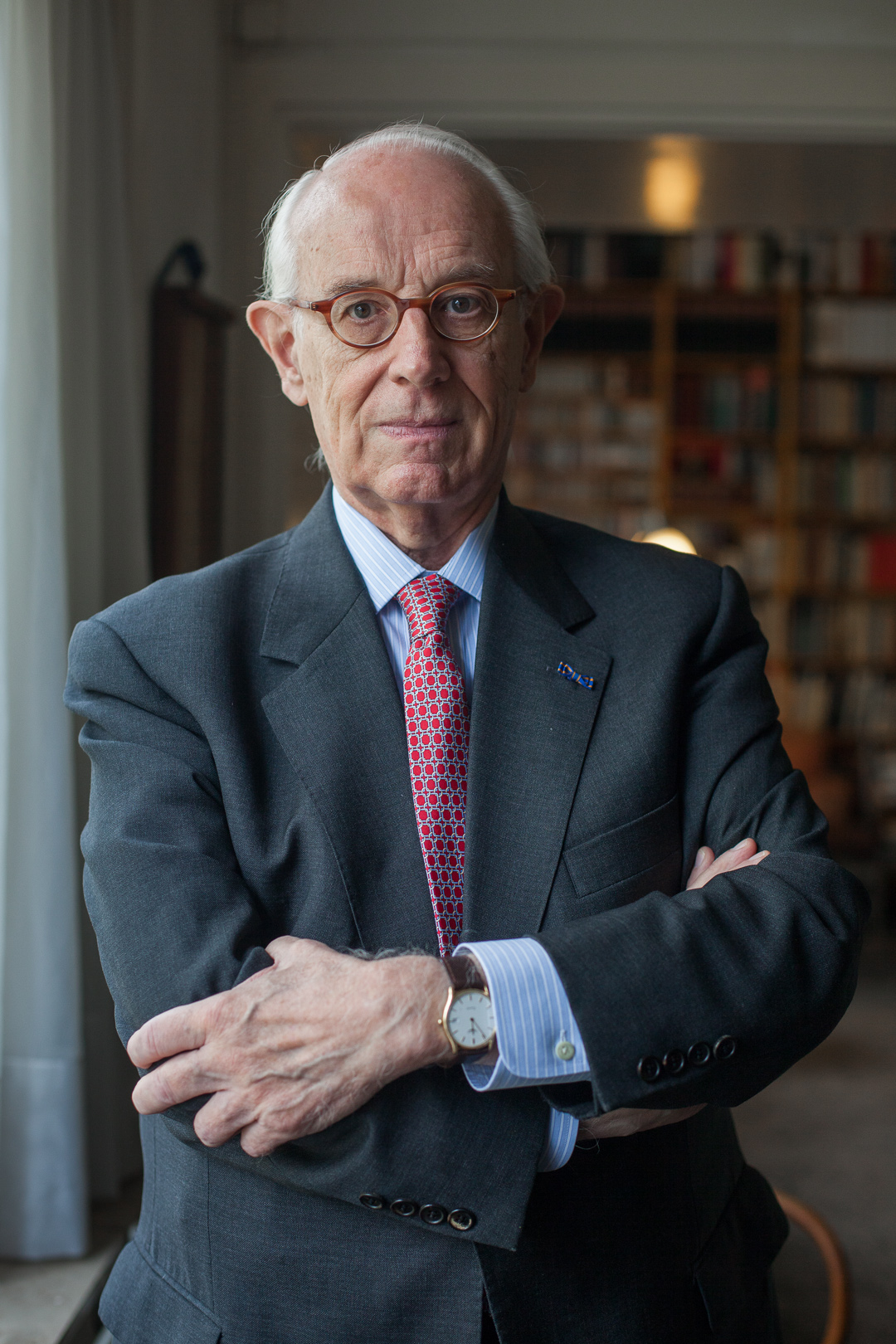 photo prof. dr. Anton Zijderveld